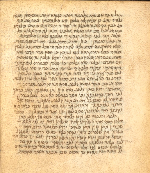 Manuscript Or. 6712 at the British Library, folio 034v, showing Mishnah commentary (Kil'ayim 1:3) written by Rabbi Isaac ben Melchizedek of Siponto